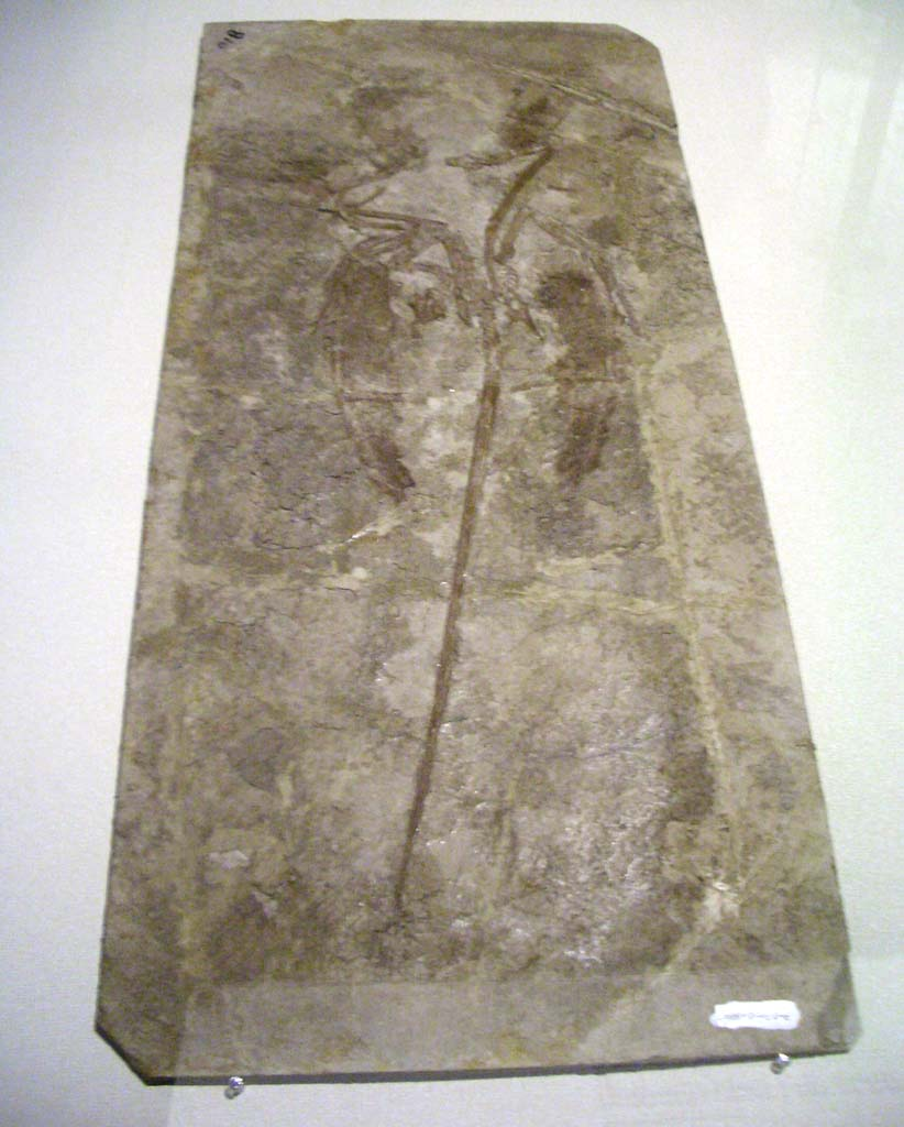 Microraptor gui fossil displayed in Hong Kong Science Museum